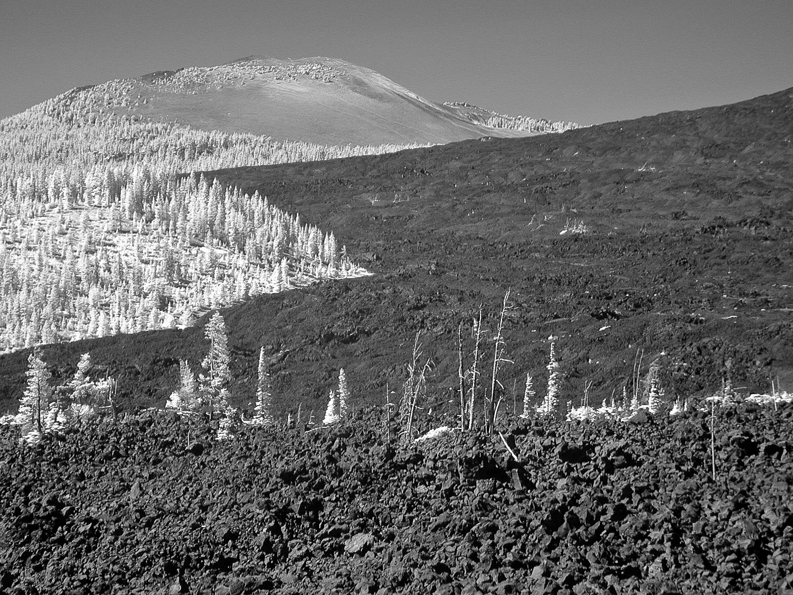 Belknap Volcano Shield and Lava Beds from Dee Wright Observatory